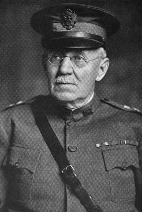 Major General Charles M. Clement, commander of the 28th Infantry Division in World War War I.